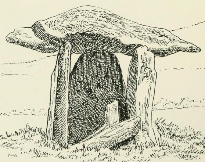 Drawing of Portal tomb (or Dolmen) on Bree Hill, County Wexford, Ireland, by George Victor Du Noyer (d. 1869).